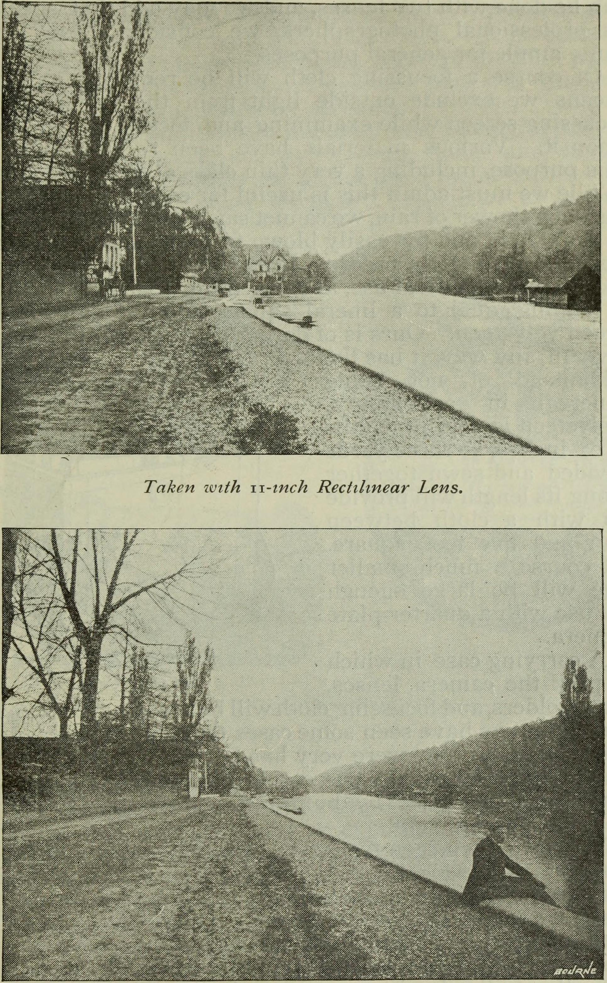 Title: Early work in photography: a text-book for beginners Year: 1896 (1890s) Authors: Henry, W. Ethelbert Ward, H. Snowden (Henry Snowden), 1865-1911 Subjects: Photography Publisher: London: Dawbarn and Ward, Ltd. Text Appearing Before Image: Taken ivith 17-inch Combination of \\-inch~Rectilinear Lens. These four views of the same object were taken The Outfit. 45 Text Appearing After Image: Taken with $-inch Rectilinear Lens. from one standpoint, the lens only being changed. 46 Early Work in Photography. can be done with two lenses, and we may add that, speakingas professional photographers, we consider these lensesquite ample for general purposes. Of course a focussing cloth will be required, as by itsmeans we exclude outside light from the surface of thefocussing screen while examining and focussing the imageupon it. Various materials have been recommended forthis purpose, including a very thin class of waterproof cloth.While we must admit this is useful for covering the cameraduring a shower of rain, we cannot say we like it for focussing.It is too light and too easily blown from the head and cameraduring even a slight breeze. Broad cloth is very nice but istoo heavy for general use, and we think that after all thereis nothing equal to a liberal square of dark blue or darkgreen velveteen. Ours is of dark blue, and while notTobtru-sive in any way, it has theadvantage o